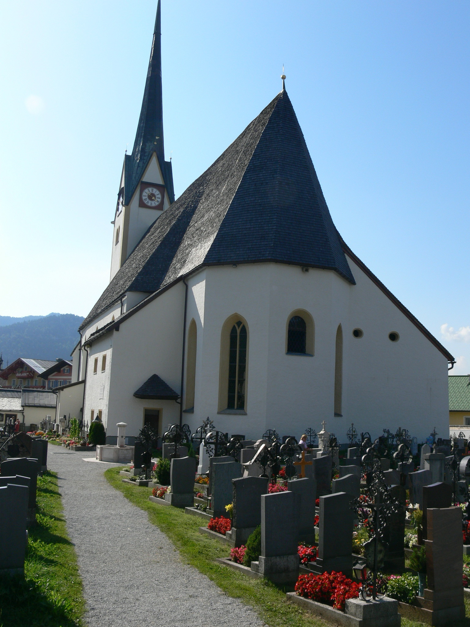 Saint Blaise parish church in Abtenau ( Salzburg ). Exterior: Apse.